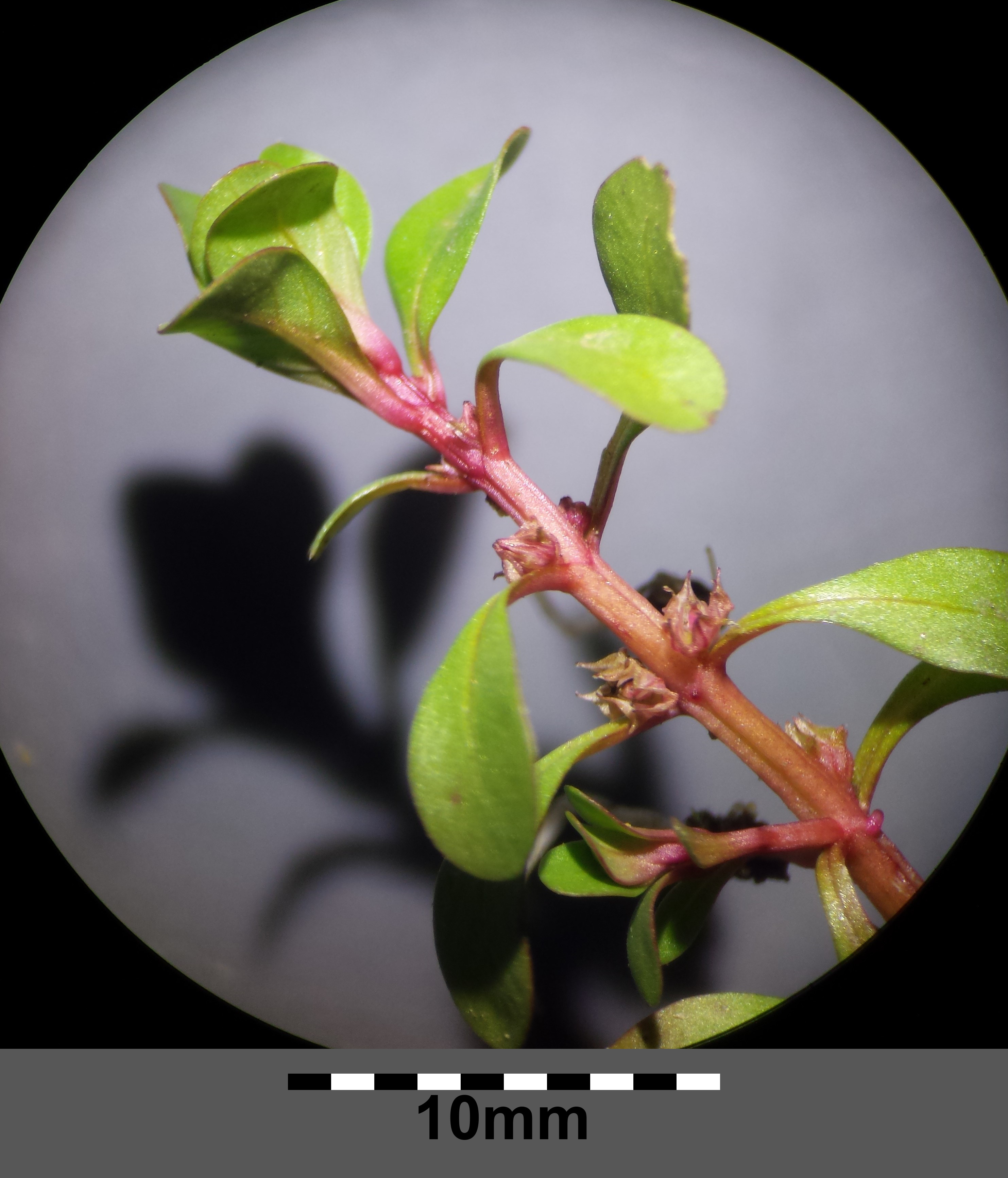 Infructescence Taxonym: Peplis portula ss Fischer et al. EfÖLS 2008 ISBN 978-3-85474-187-9 Location: Rudmannser Teich, district Zwettl, Lower Austria - ca. 580 m a.s.l. Habitat: ground of a lake